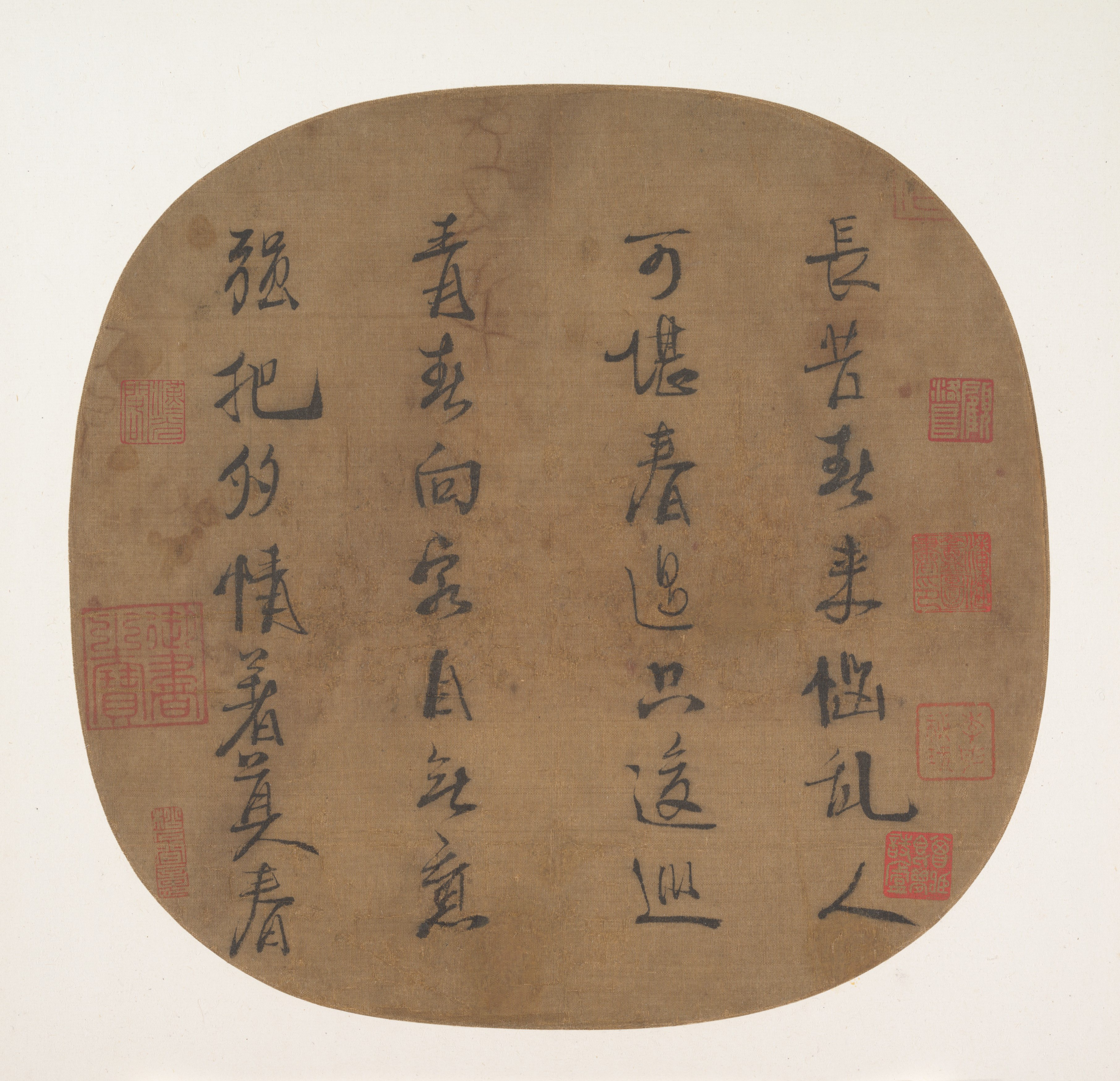 China; Fan mounted as an album leaf; Calligraphy